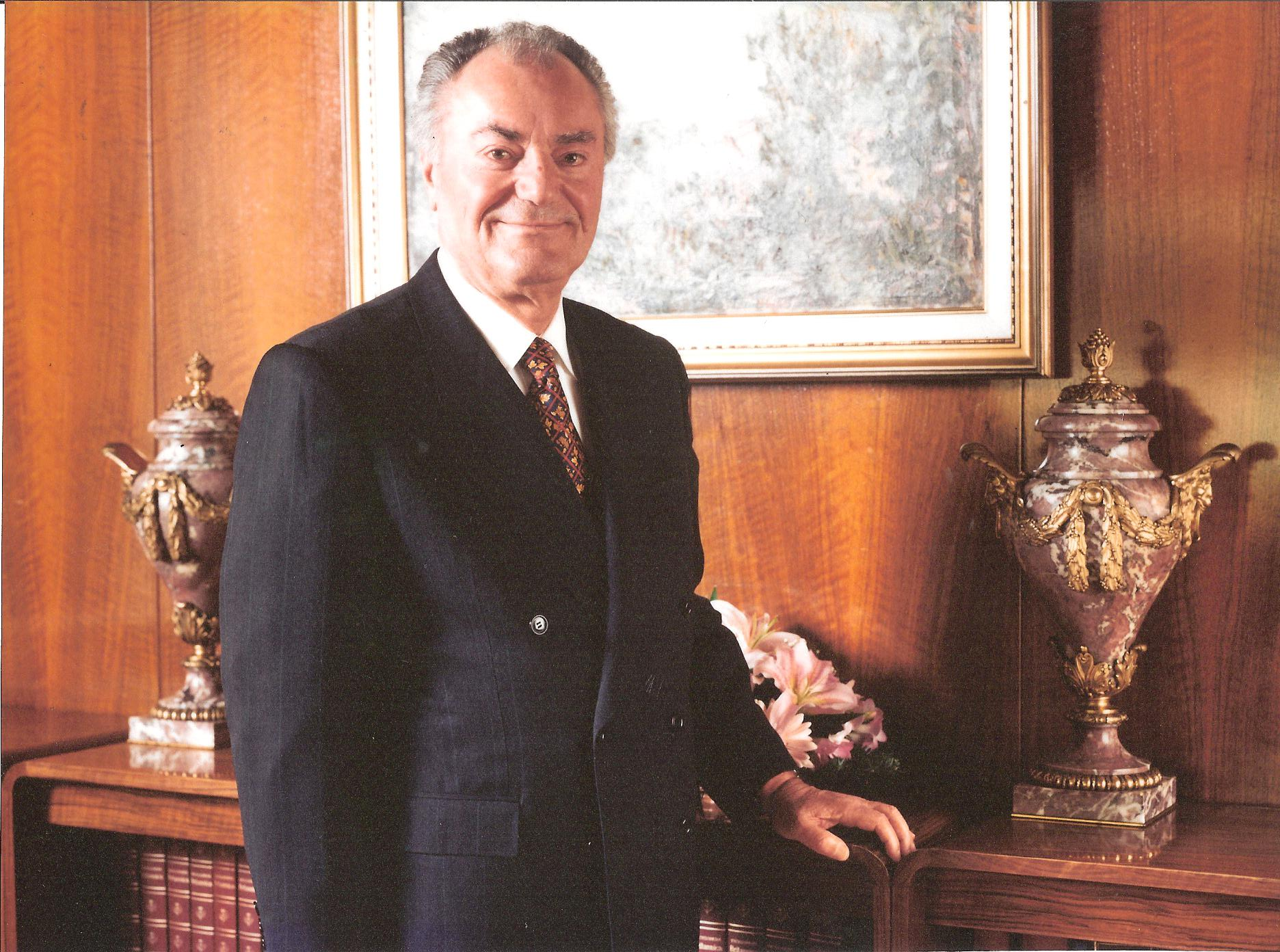 Burhan Karagoz picture